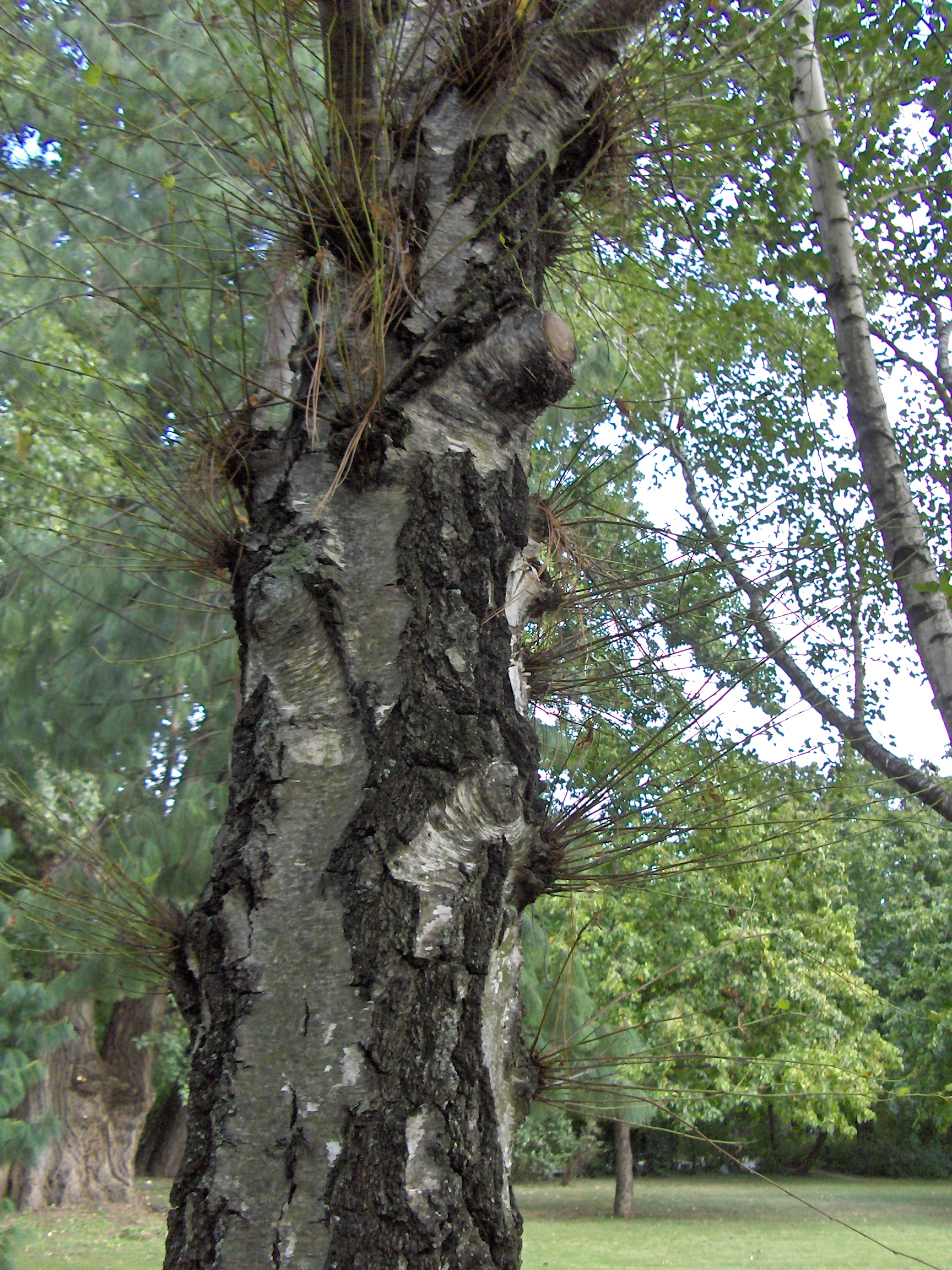 Water shoot/epicormic shoot/sap shoot/water sprout on a tree (Betula pendula)